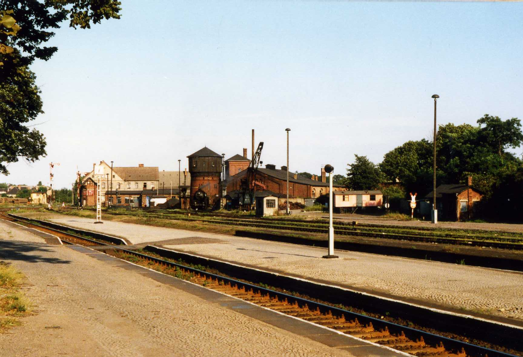 The attractive station and shed at Oschersleben. In front of the water tower a class 50 is in steam. Another 50 was shunting at the former junction at Blumenberg a few km towards Magdeburg. A pot of coffee in the Mitropa restaurant here cost 1.68M, and a large photograph of Erich Honecker looked down on the drinkers and diners. Another large derelict Class 50 was parked in the station. Until just before this time, Class 50 steam locomotives were used on passenger trains on the short branch line to Gunsleben at the former border.